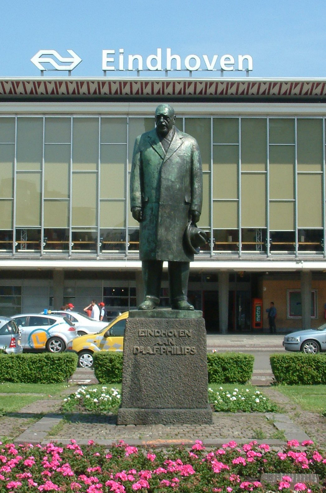 Anton Philips statue